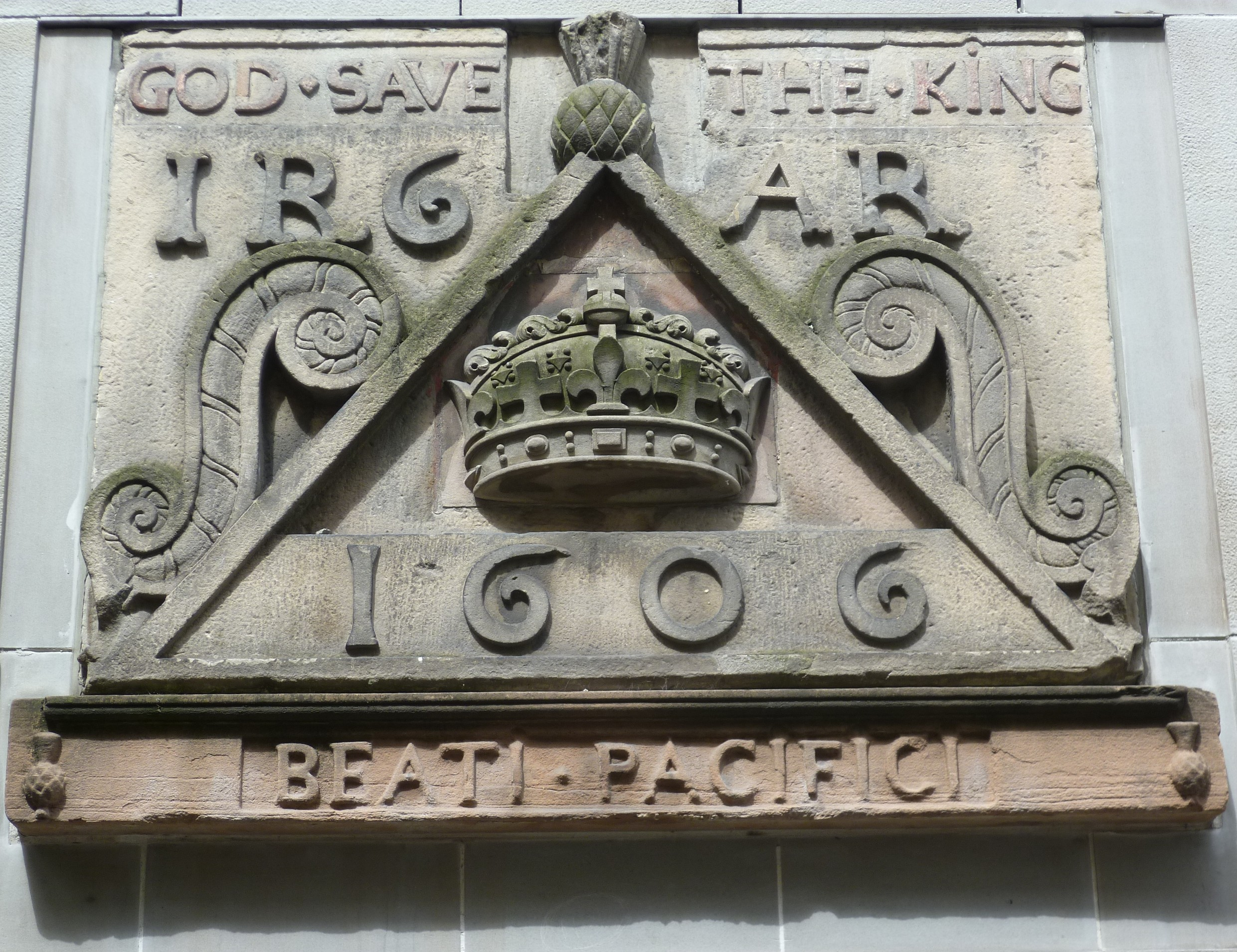 An impressive tablet rescued from the Netherbow town gate of Edinburgh which was demolished in 1764. It is affixed to the wall of a modern extension at the rear of John Knox's House in the High Street. The initials IR and AR stand for Iacobus Rex and Anna Regina. It bears James' motto "Blessed Are The Peacemakers" (Matthew 5:9), summing up what was arguably the main achievement of his reign: peace between England and Scotland, especially in the troubled Border Marches of the two kingdoms.